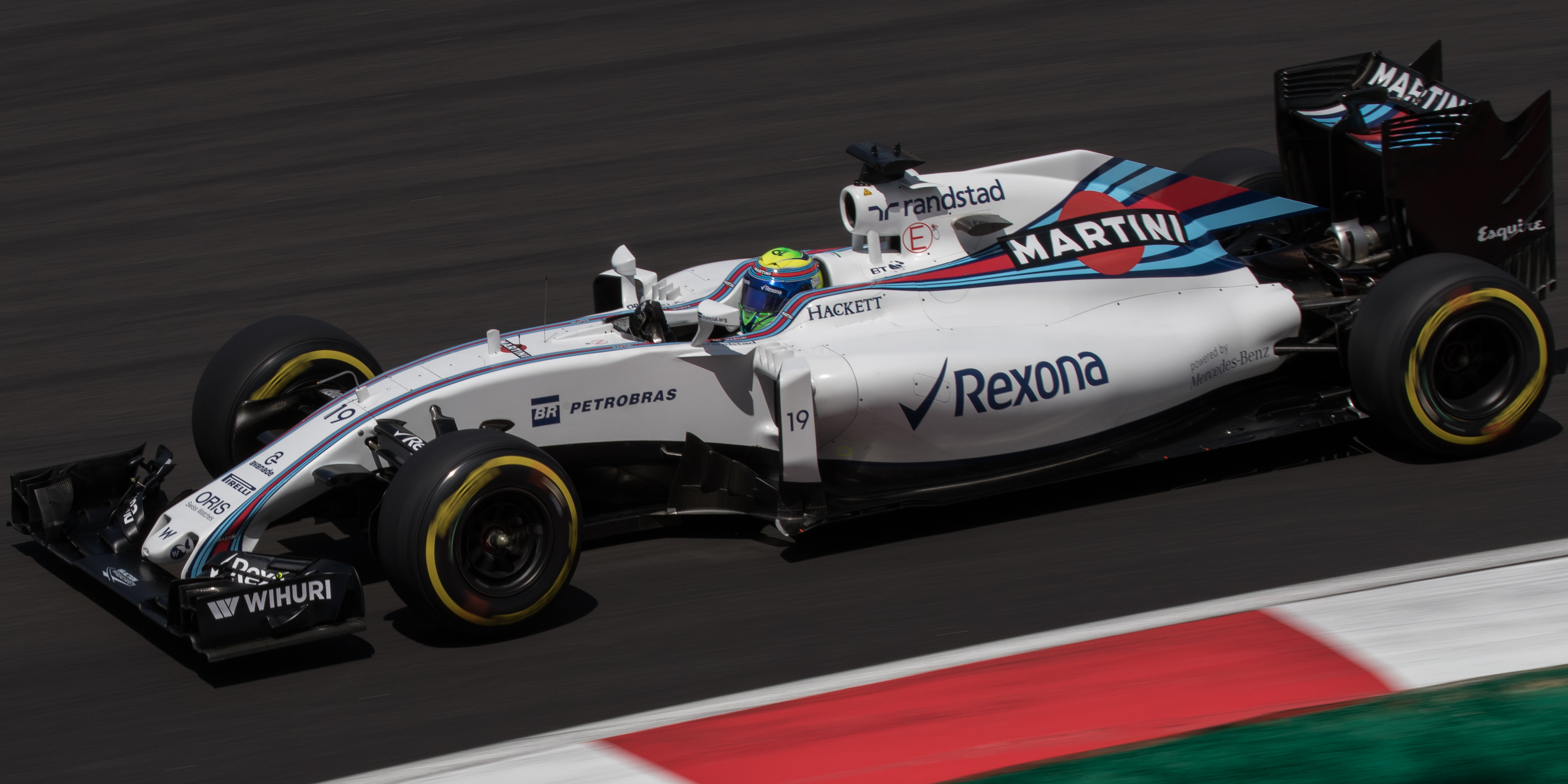 Formula One 2016 Rd.16 Malaysian GP: Felipe Massa (Williams)